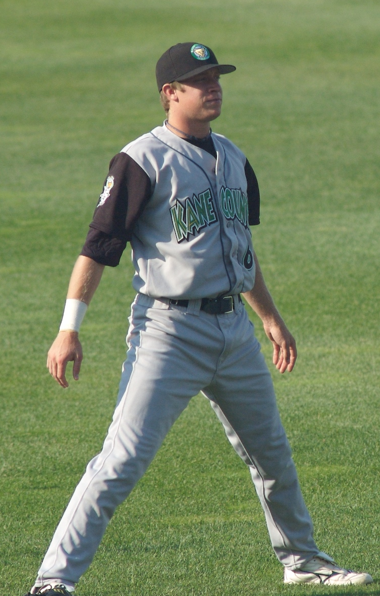 Sean Doolittle